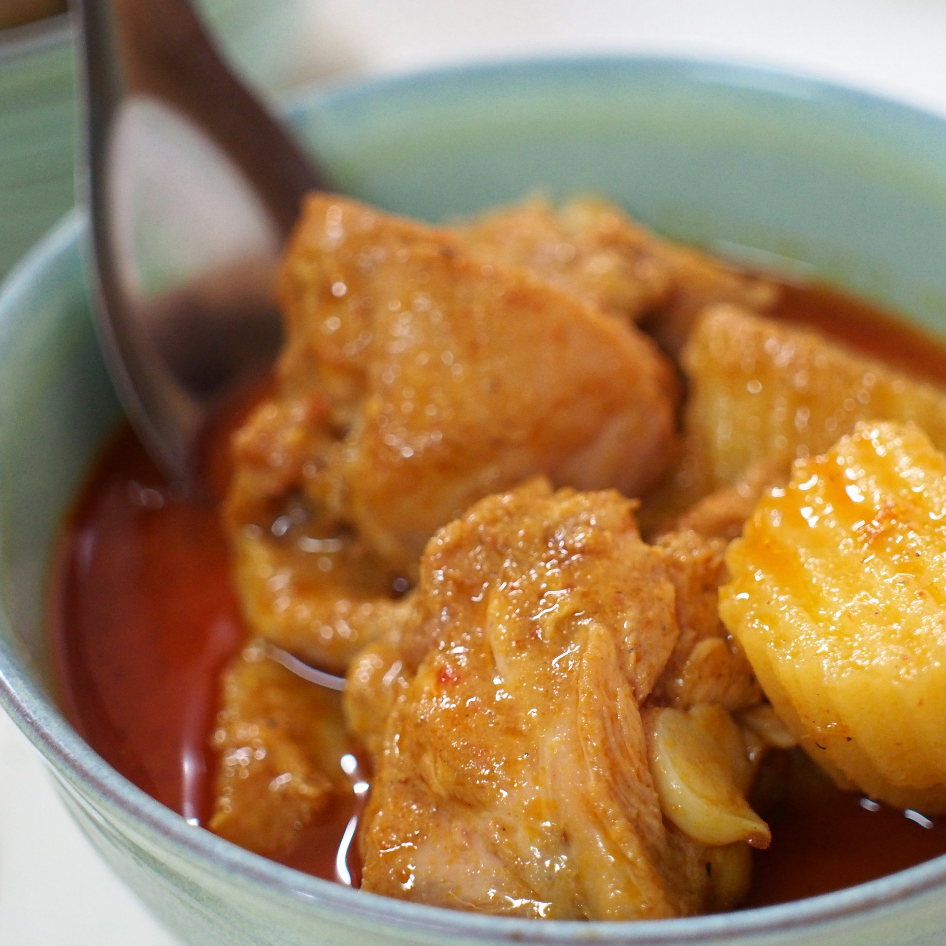 Kaeng matsaman kai: chicken and potato matsaman curry at a southern Thai eatery in Chiang Mai.